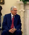 Egypt's Prime Minister Ahmed Nazif